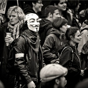 A protester wearing a trademark Guy Fawkes mask during the Occupy Portland march on October 6th, 2011. During the march he wore a yellow arm band, symbolizing he was part of the 'Police Liaison' committee.